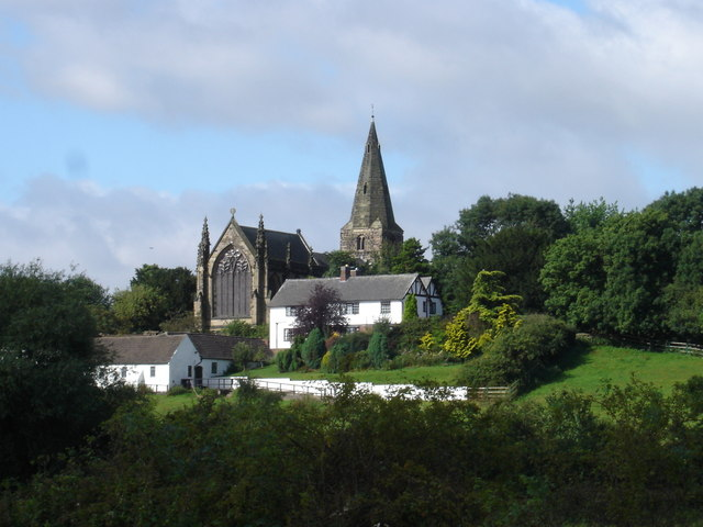 Sandiacre Church Showing the magnificent east window that overlooks the valley of the Erewash.